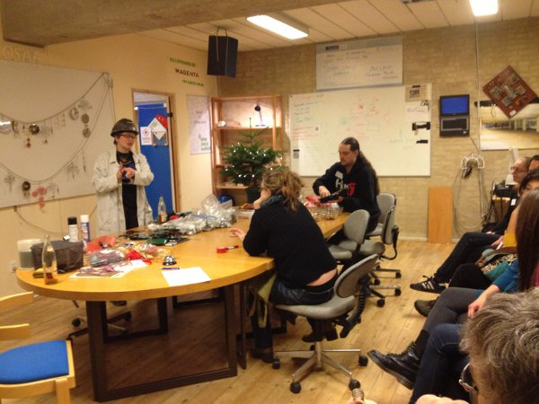 Christmas workshop in the Danish hackerspace Open Space Aarhus.